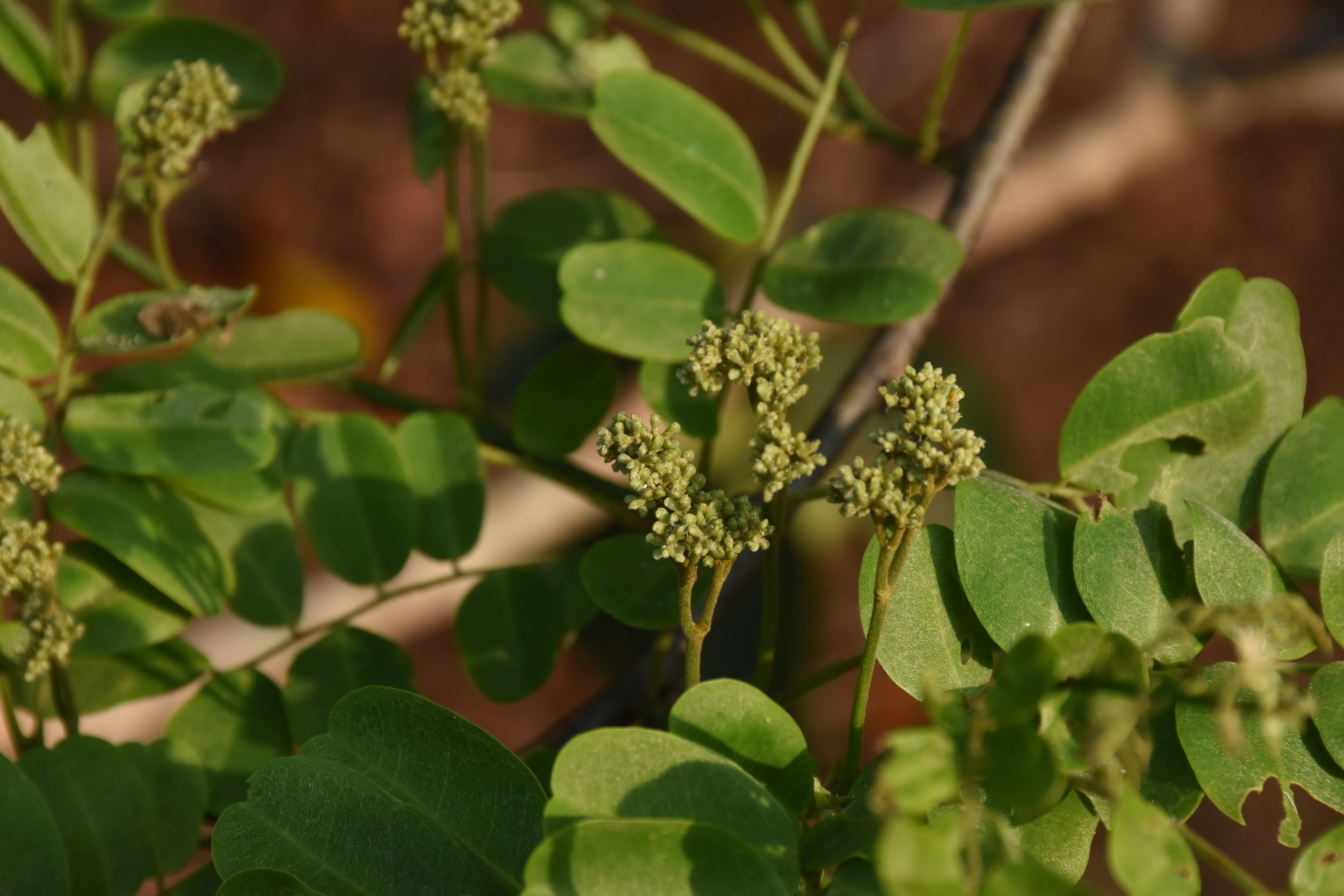 At Neeliyarkottam